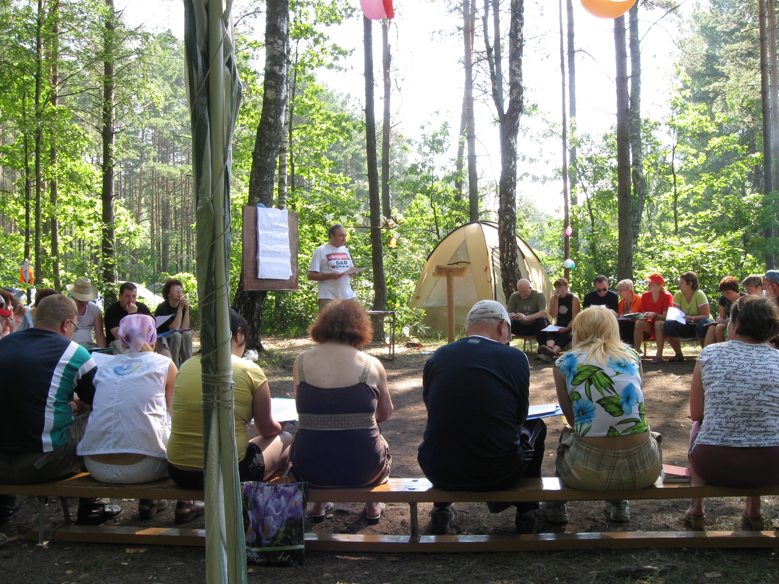 Alhovka, methodic camping